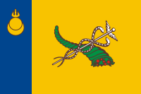 Flag of Ulan-Ude, Buryatia, Russia